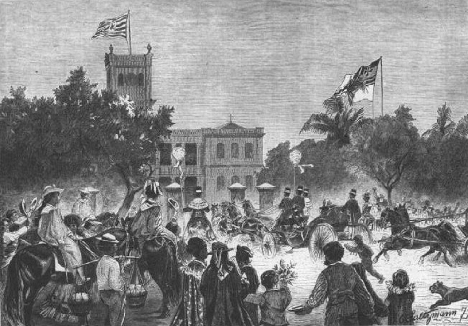 Prince Henry of Prussia visits Hawaii in 1879, as sketched by C. Salzmann, in Niklaus R. Schweizer, Hawai'i and the German Speaking Peoples. (Honolulu, Topgallant P, 1982).